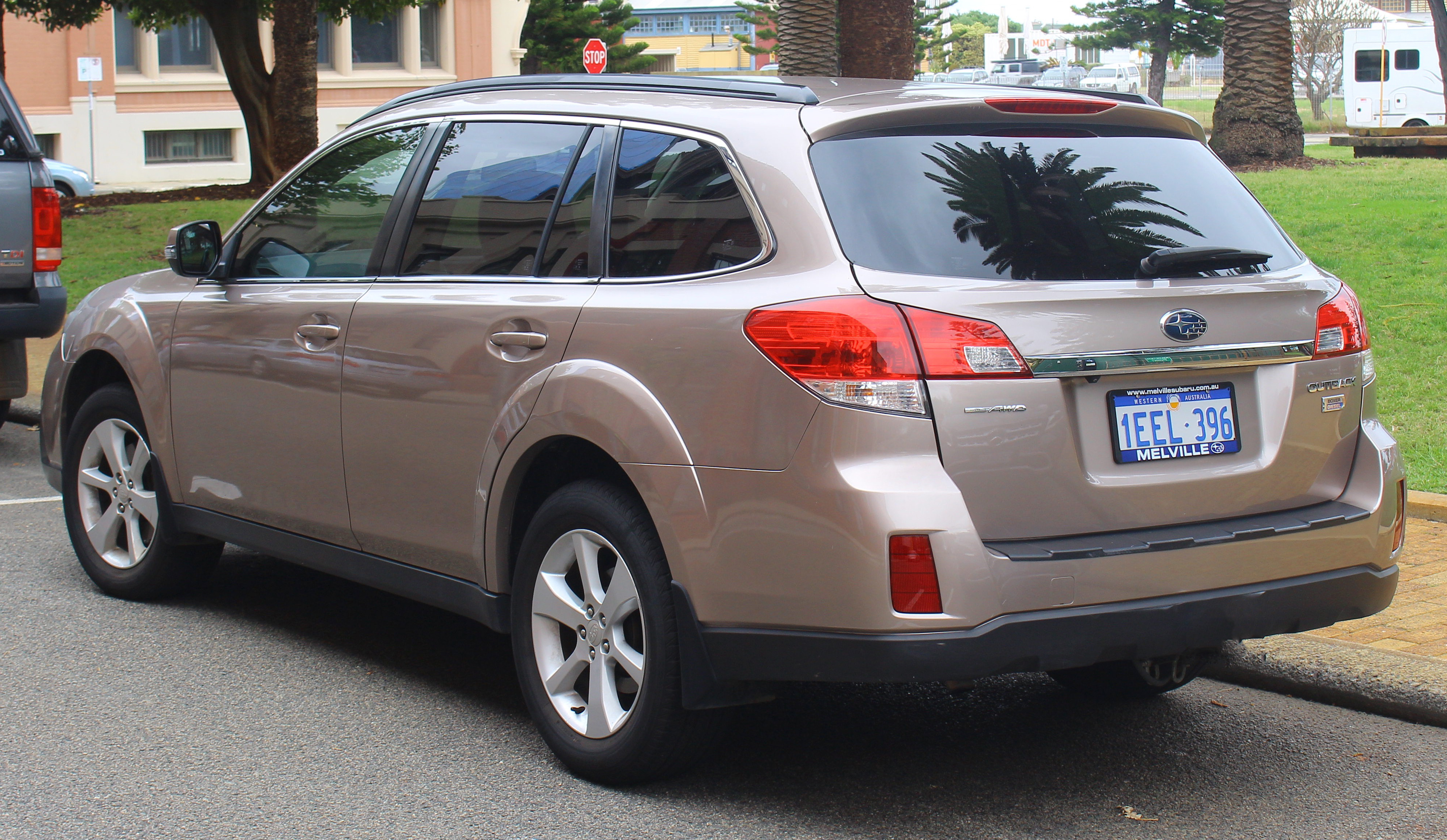 2013 Subaru Outback (BR9 MY14) 2.0D station wagon. Photographed in Fremantle, Western Australia, Australia.